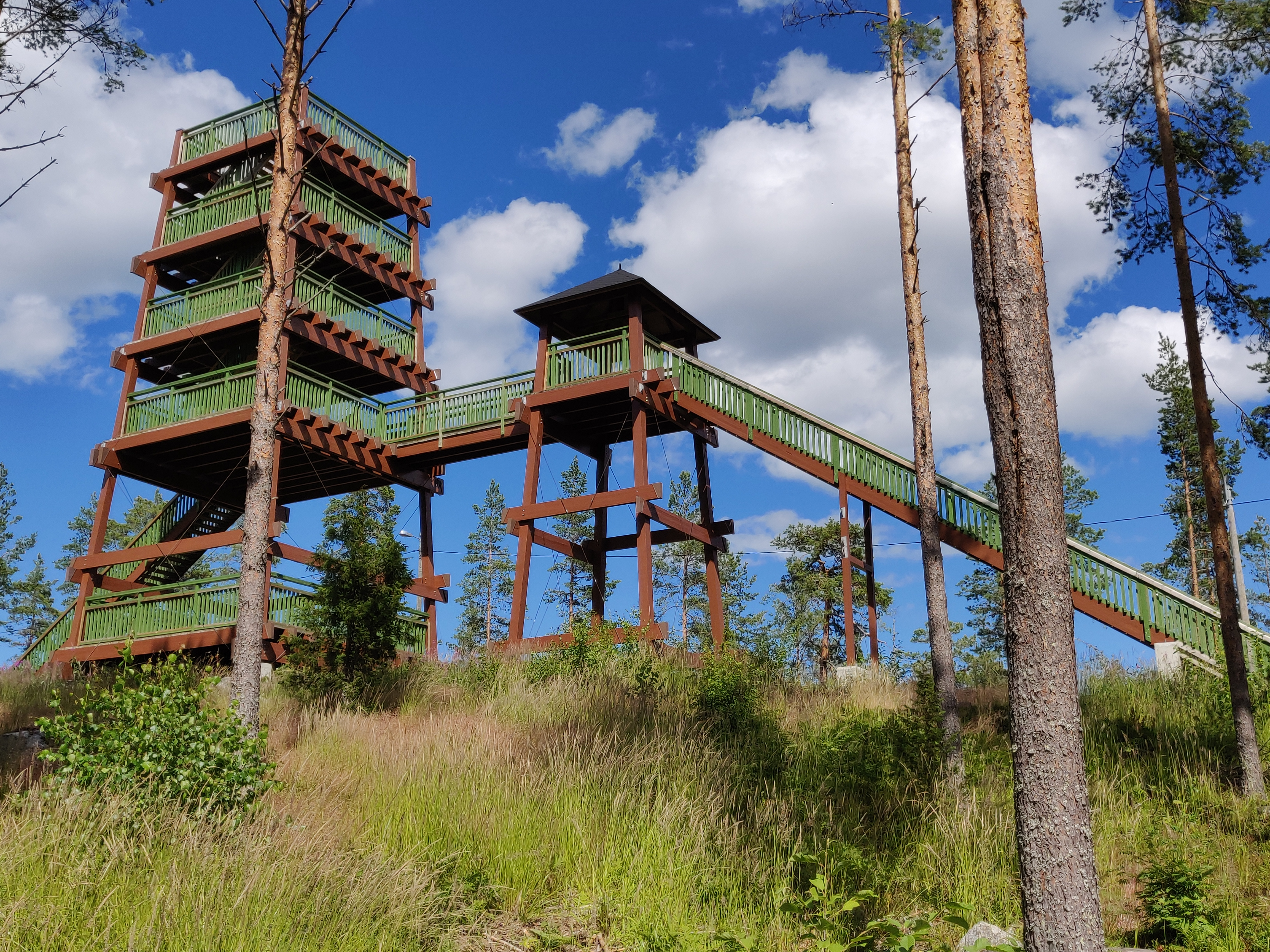 Two wooden observation towers on a hill.